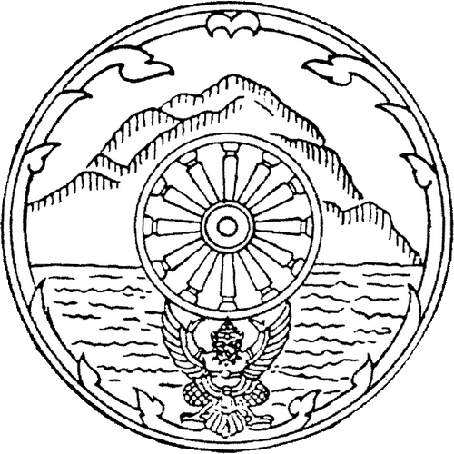 Provincial seal of Chainat province.